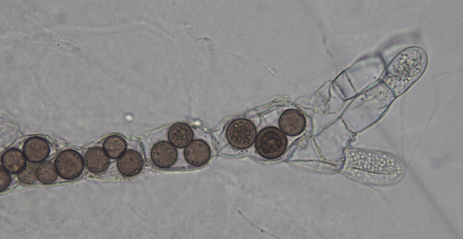 Rozella allomycis parasitizing the chytrid Allomyces